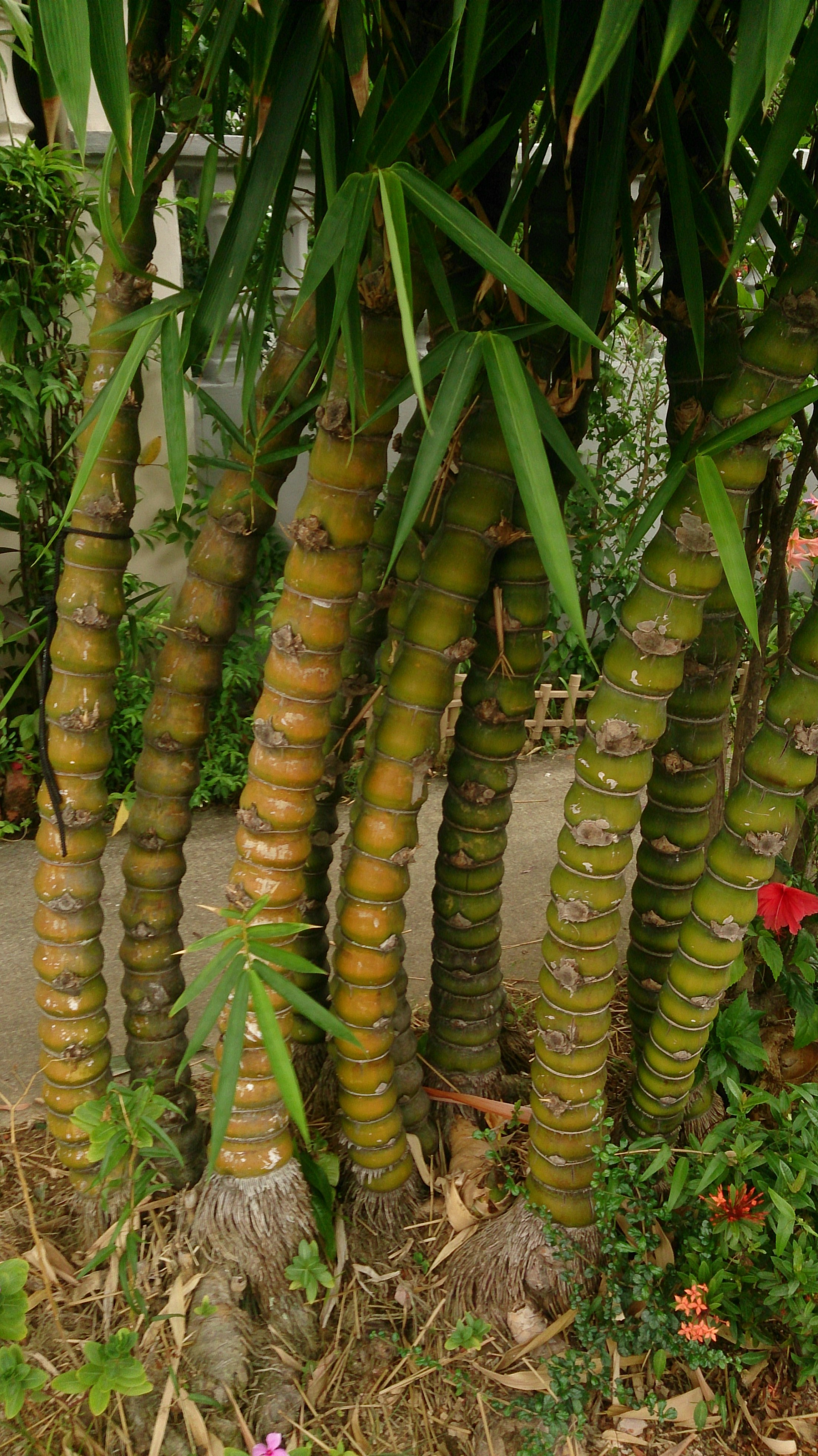 Bambusa vulgaris 'Wamin'. Common name: Giant Buddha's Belly Bamboo. 大佛肚竹 (Chinese)